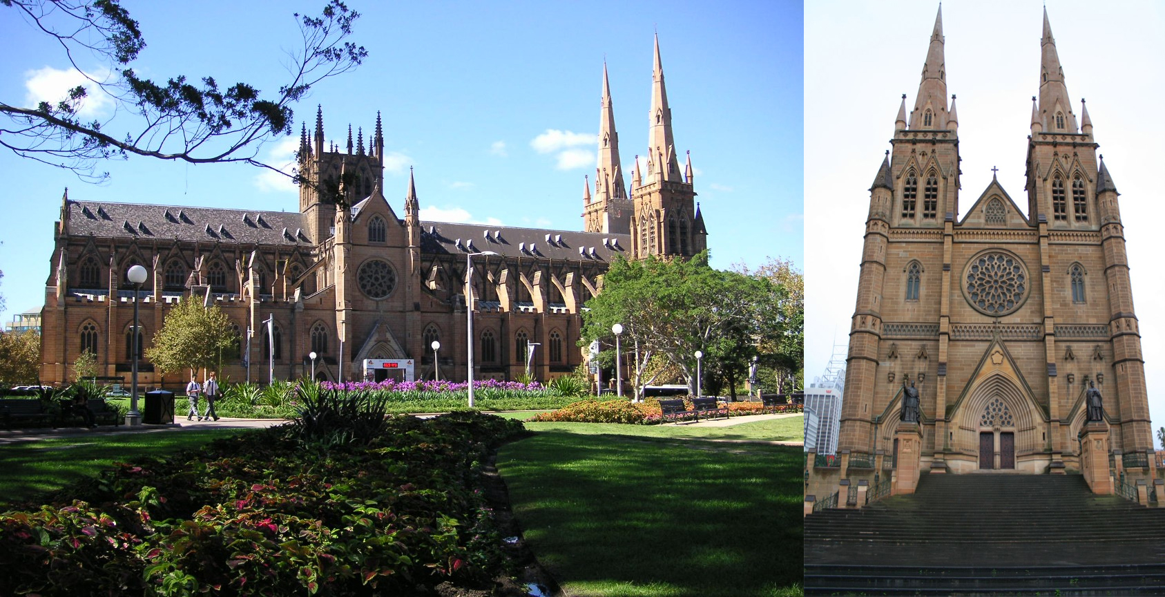 Saint Mary Cathedral (Sydney), Sydney